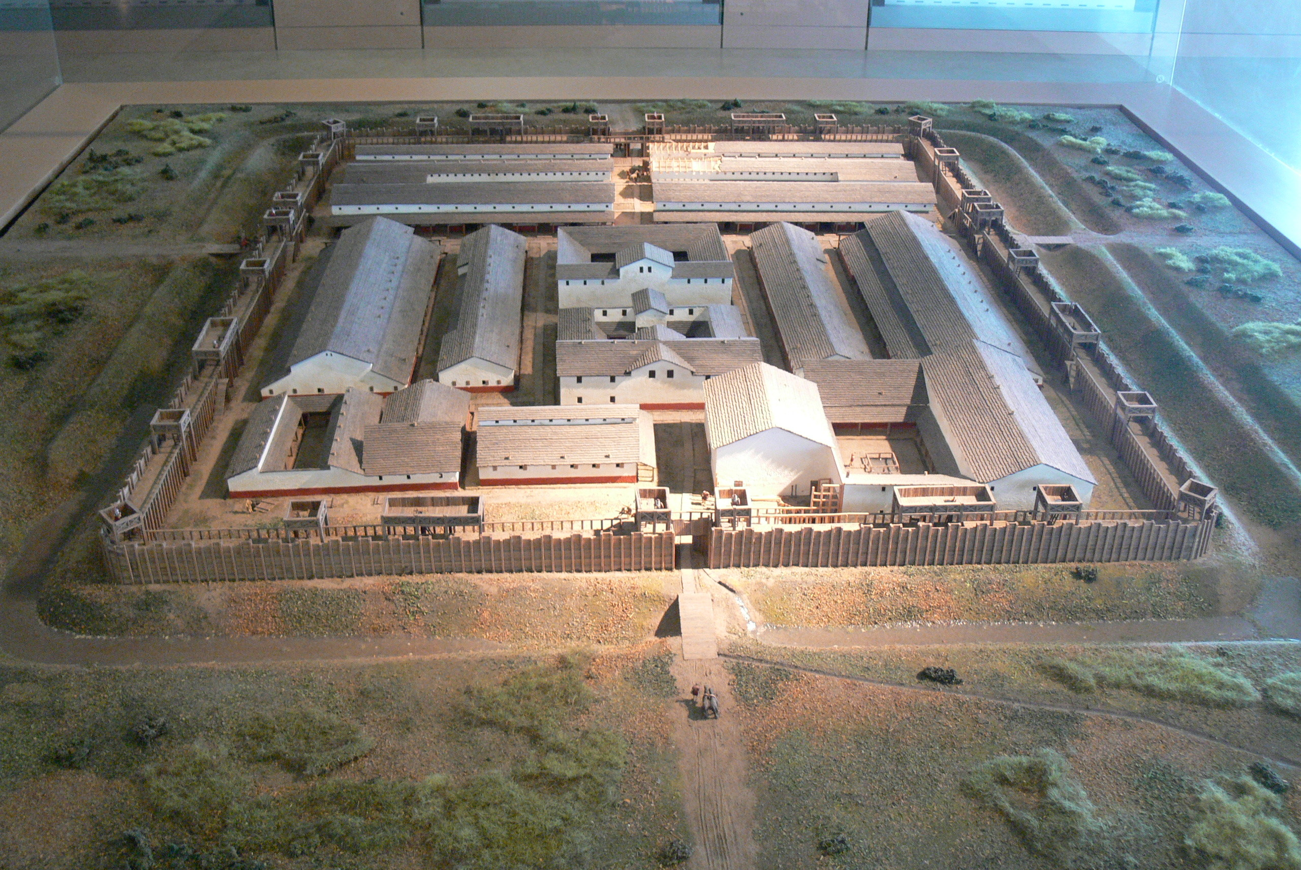 Celtic Museum Manching ( Bavaria ). Modell of the ancient Roman fortification ( 50s AD ) at Oberstimm